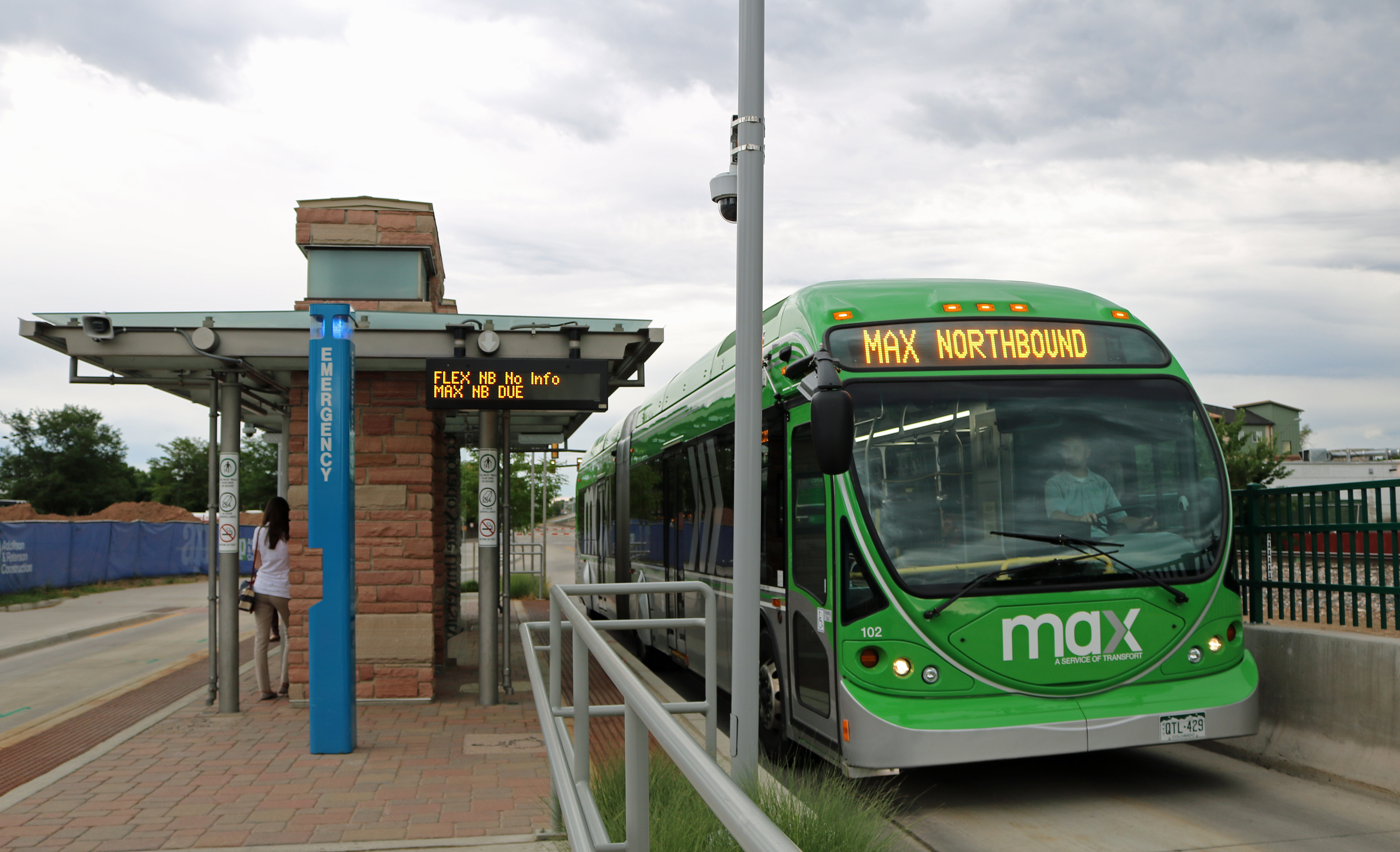 The MAX bus rapid transit line in Fort Collins, Colorado. The picture shows a bus stopping at the Prospect stop on the Mason Corridor Transitway.